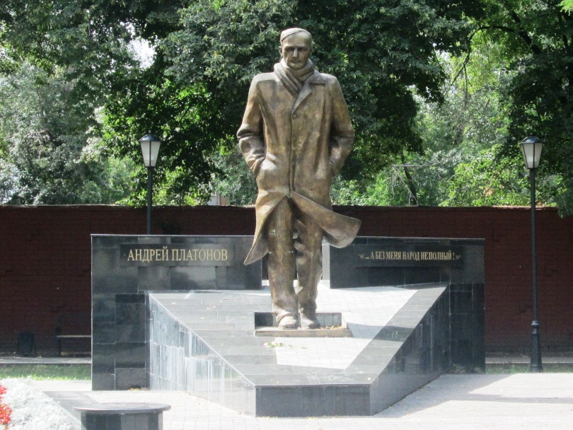 Andrey Platonov's monument in Voronezh, Russia